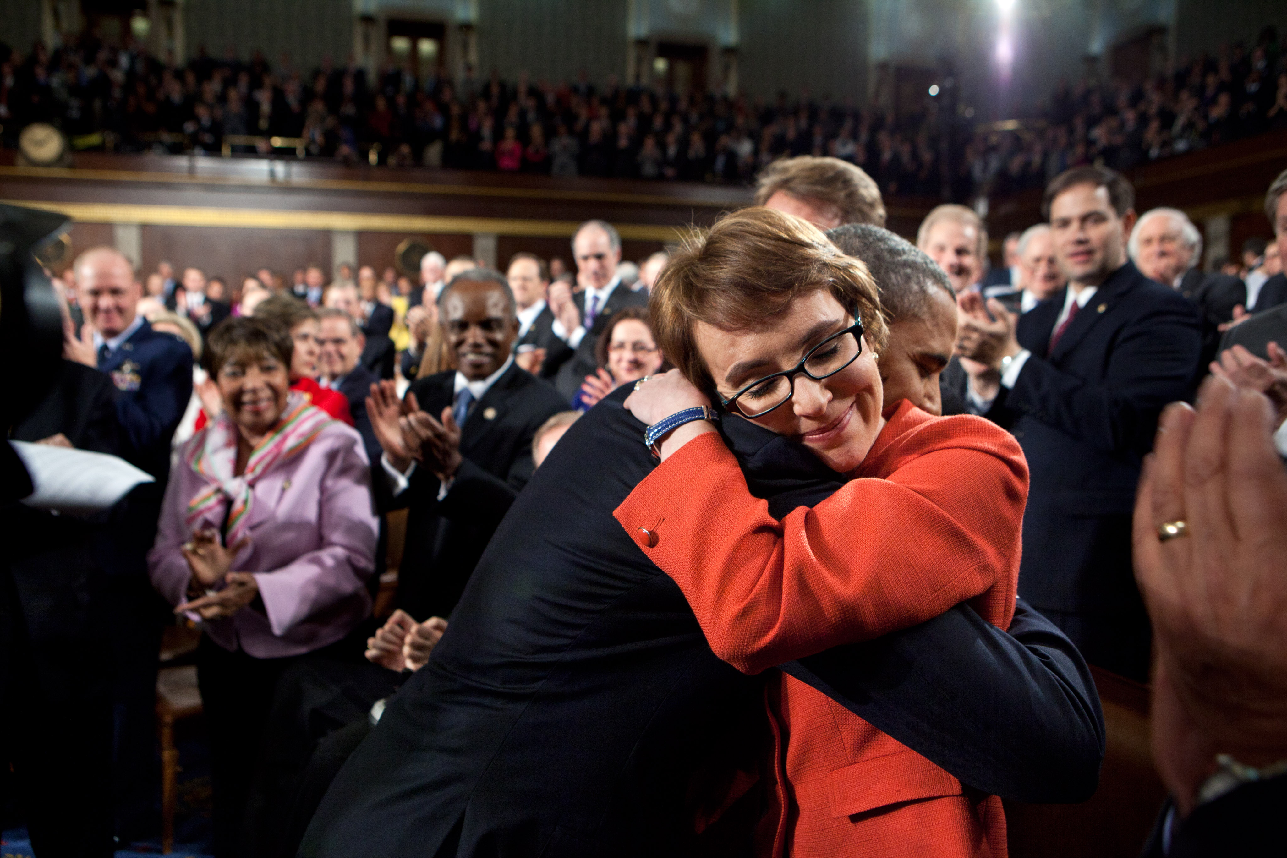 President Barack Obama embracing Congresswoman Gabrielle Giffords before delivering his speech at the 2012 State of the Union.